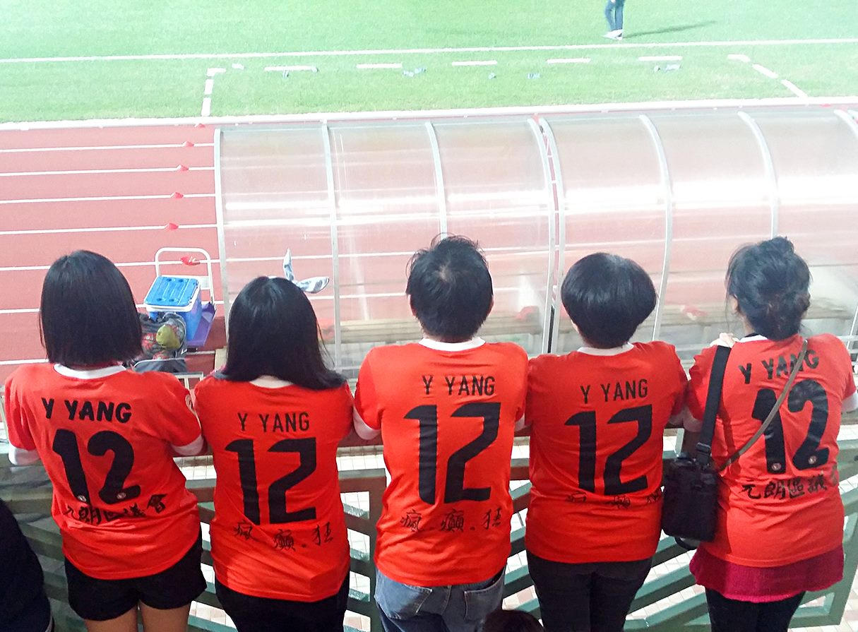 Yuan Yang's Fans